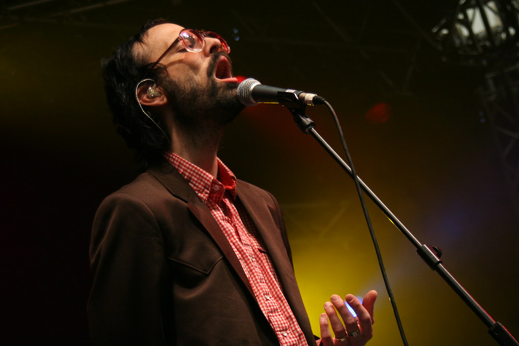 David Berman performs at ATP festival, 18th May 2008, Minehead, England